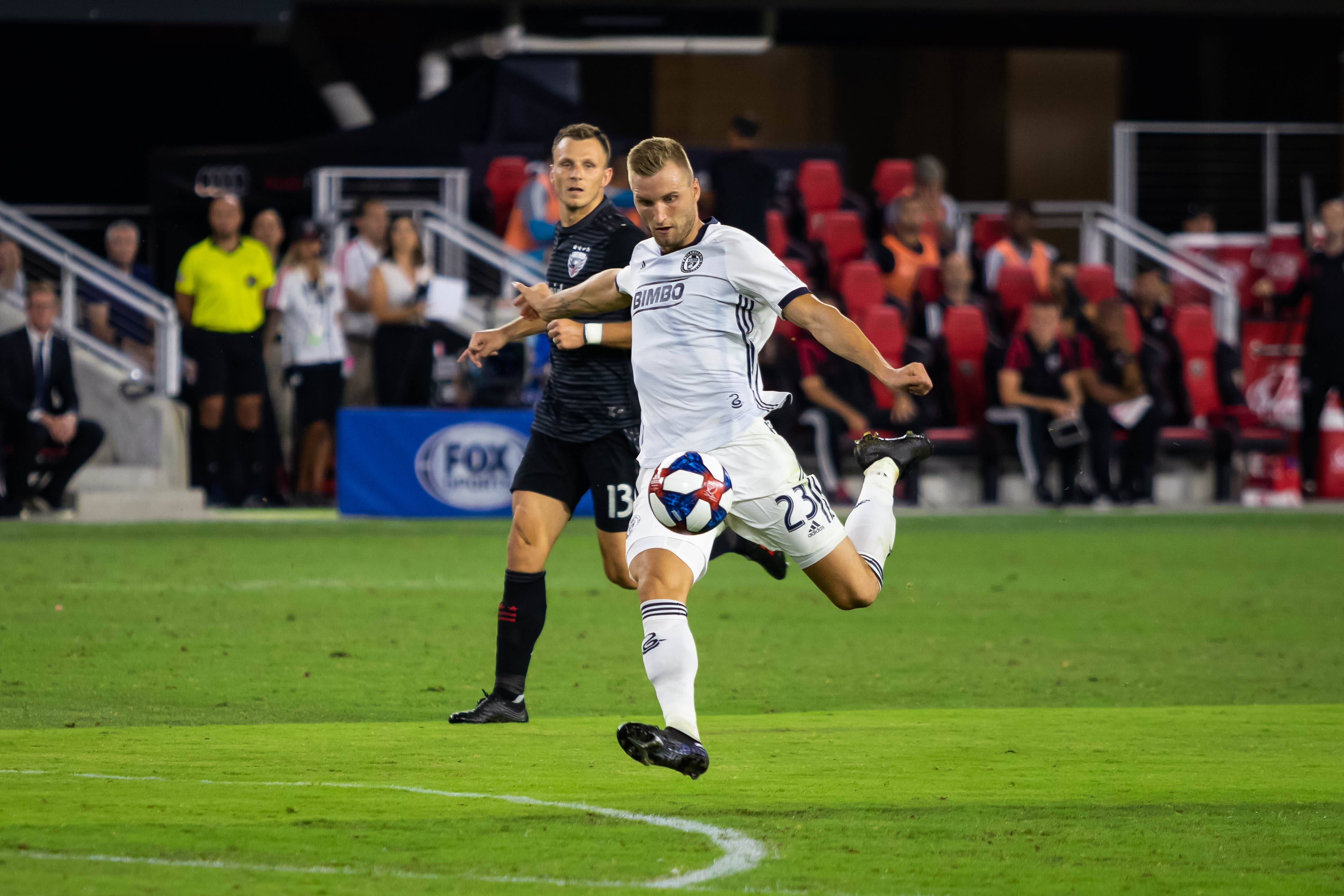 Kacper Przybylko playing for Philadelphia Union against DC United at Audi Field.